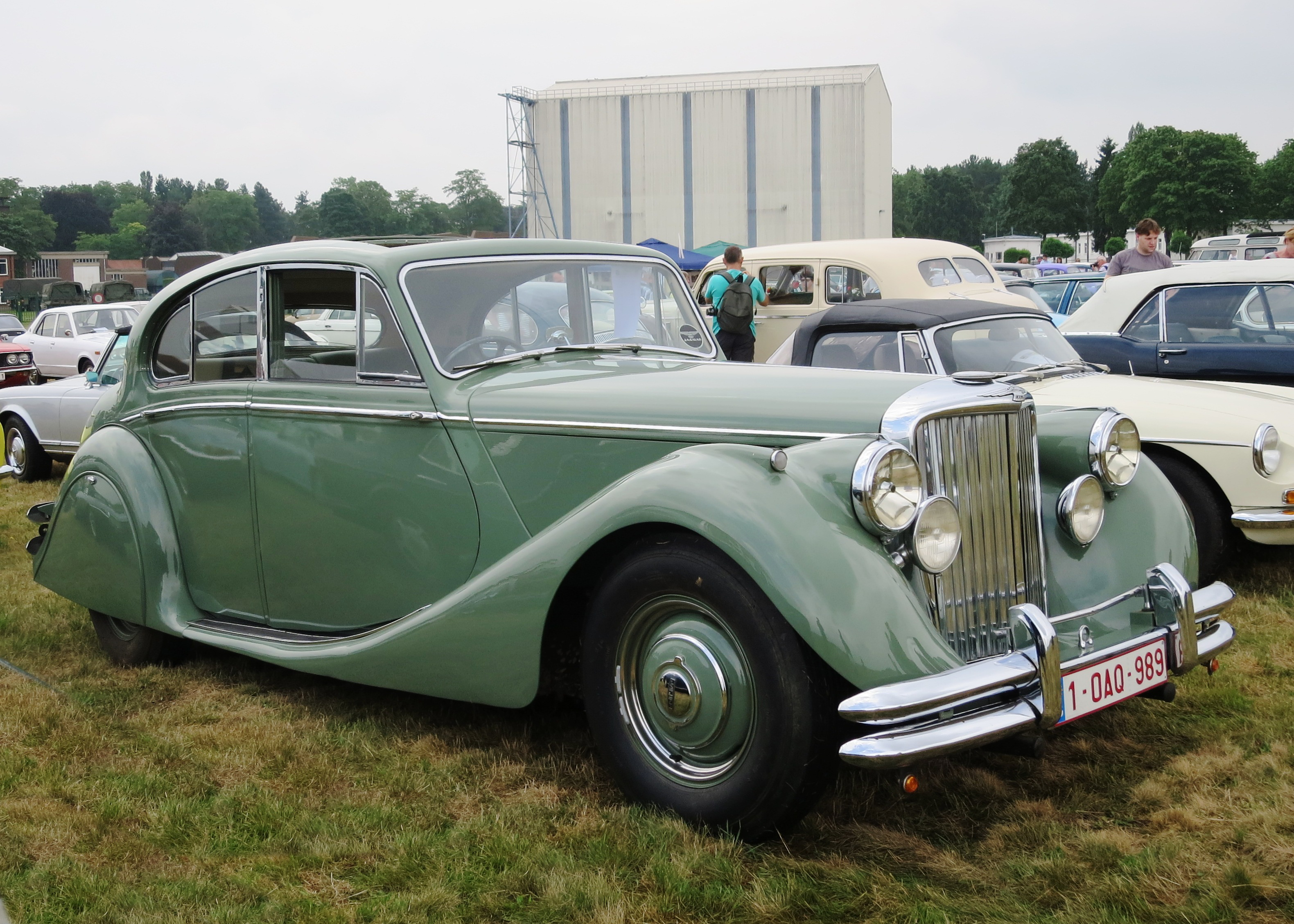 Jaguar Mark V (1949)